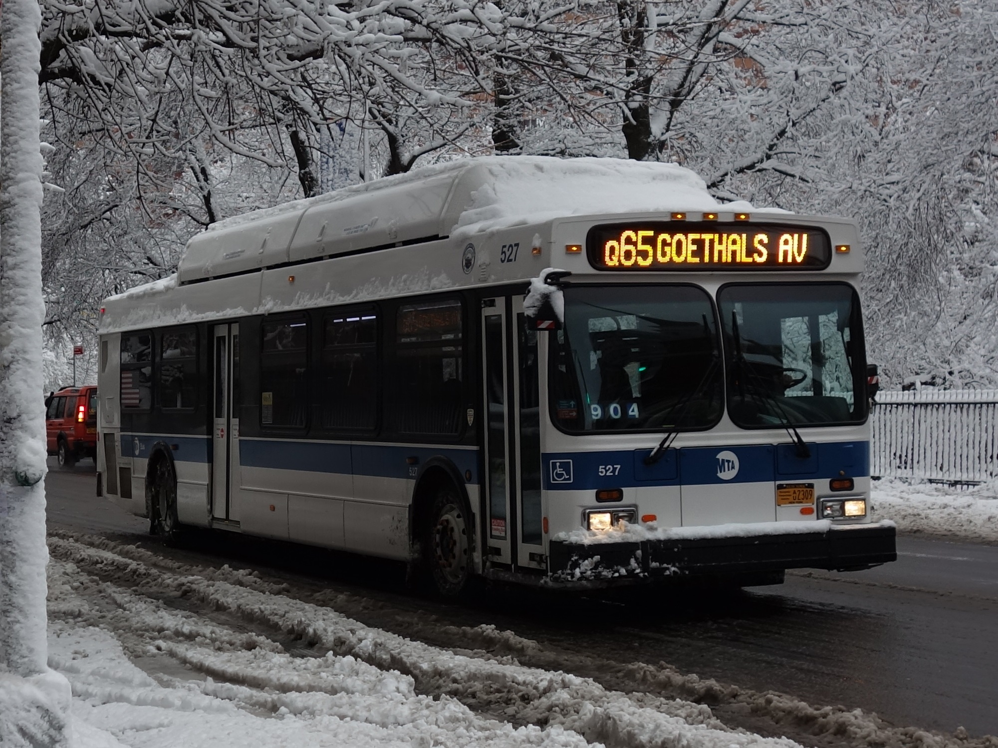 A short run Goethals Avenue (Union Turnpike)-bound Q65 bus at Parsons Boulevard and 90th Avenue in Jamaica, Queens